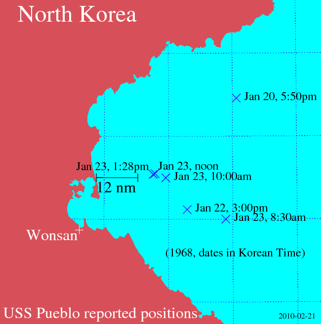 Positions of USS Pueblo as transmitted via radio